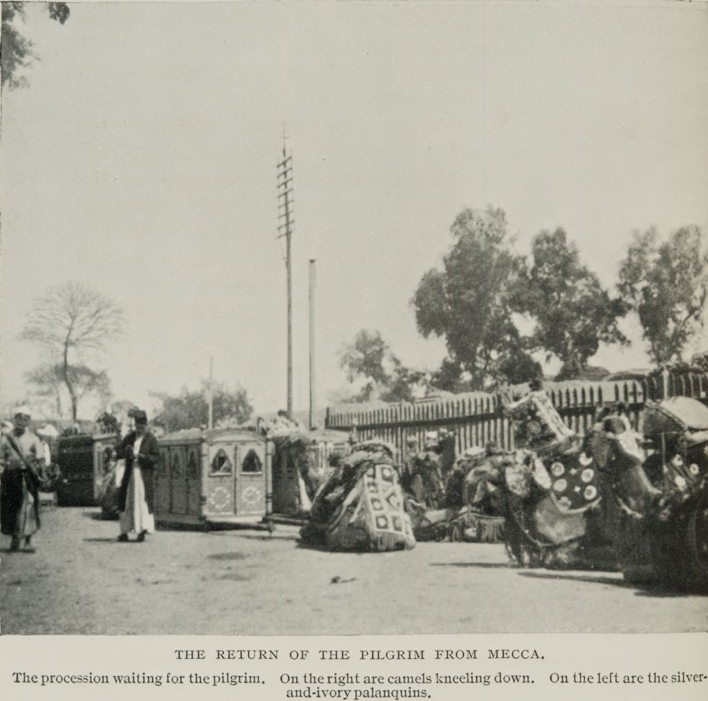 The procession waiting for the pilgrim. On the right are camels kneeling down. On the left are the silver-and-ivory palanquins. Black-and-white photograph.